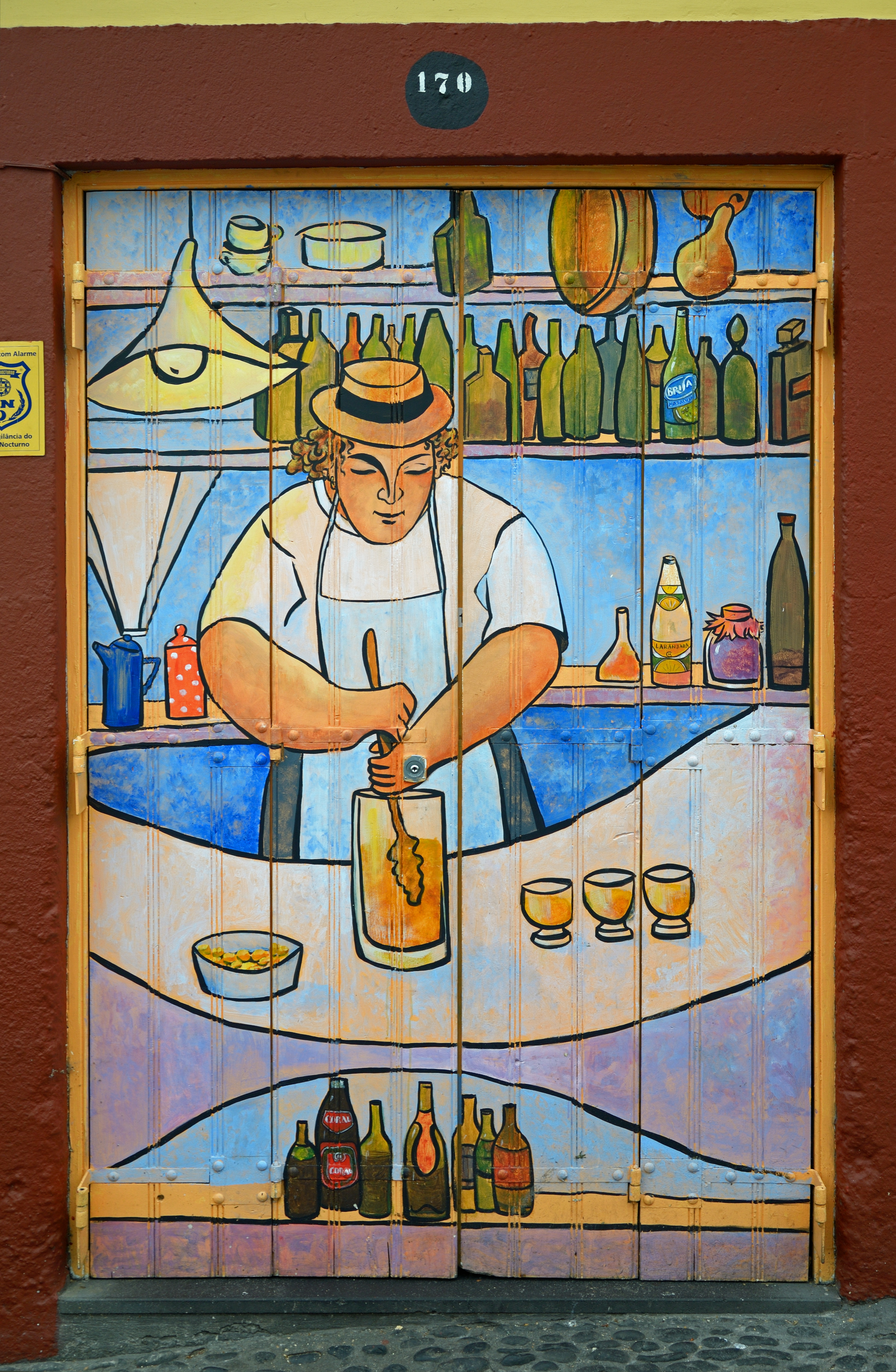 Painted door (Ponsho). Funchal, Madeira. ArT of opEN doors project in Rua de Santa Maria of Funchal